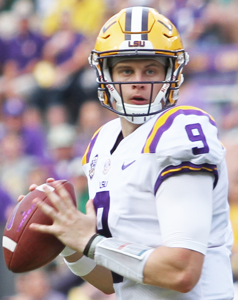 Joe Burrow, SELU vs LSU at Tiger Stadium, September 8th 2018, Tammy Anthony Baker, Photographer